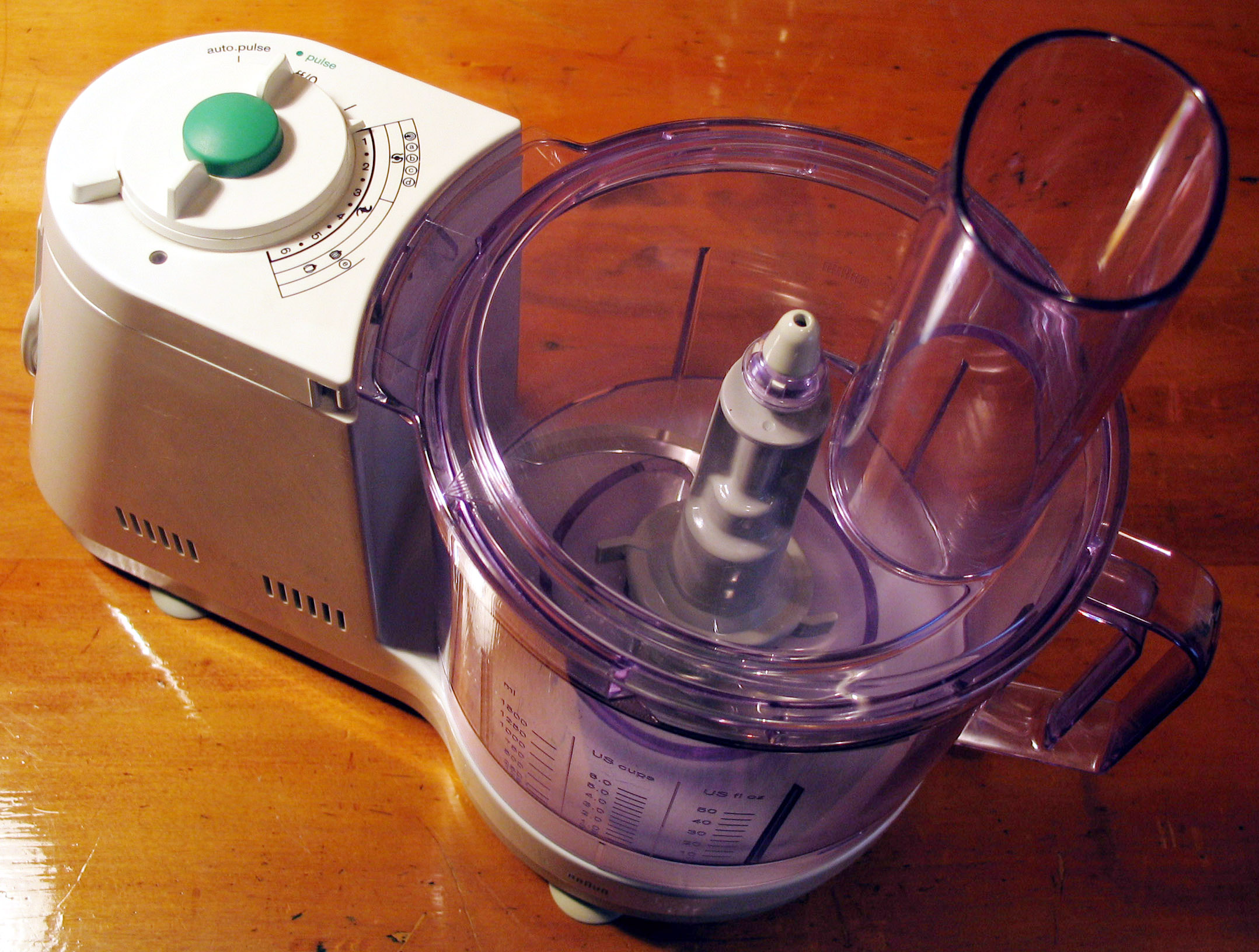 This is the food processor part of a Braun Multisystem K1000 food processor.